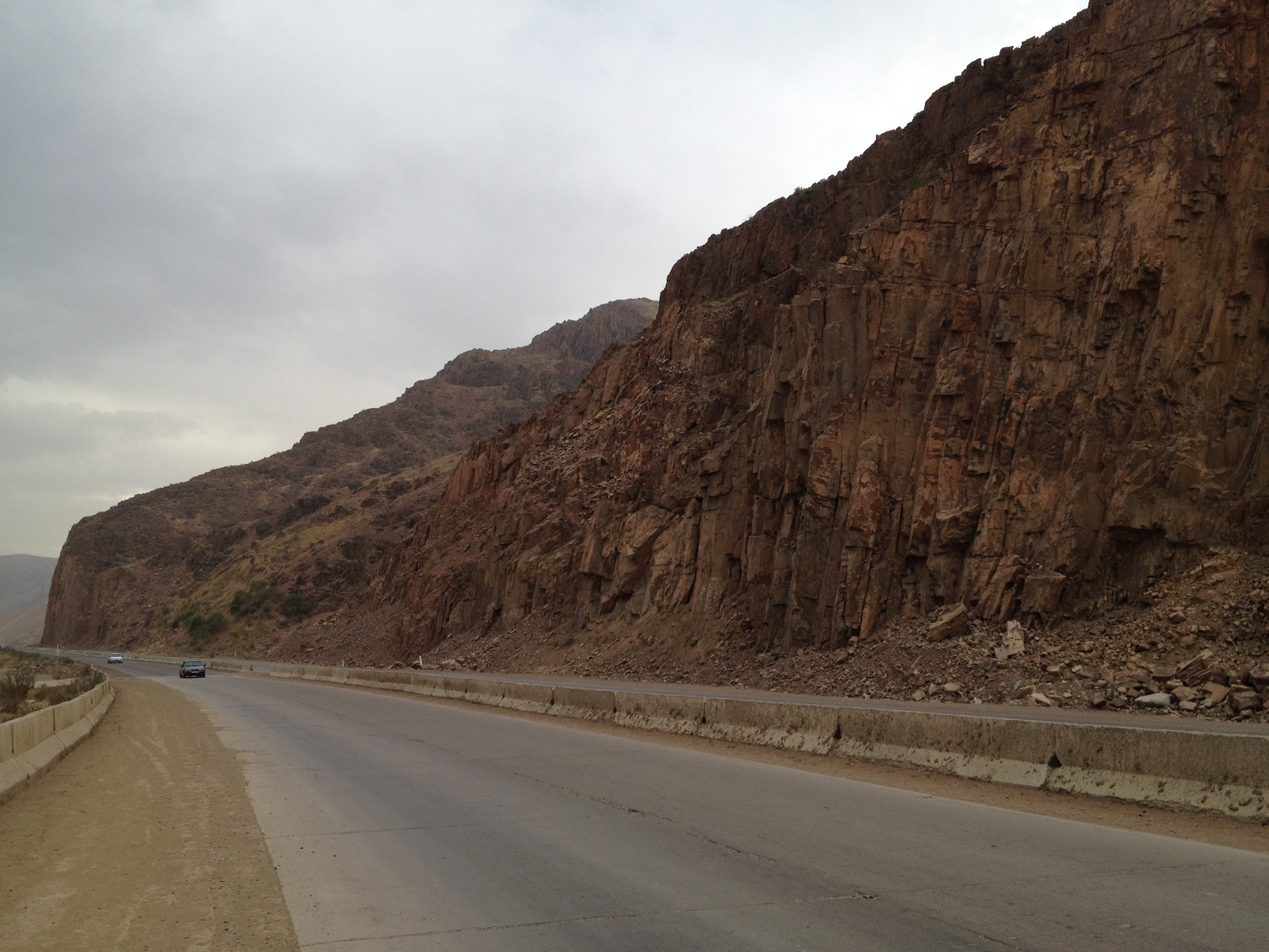 A-373 road near Angren